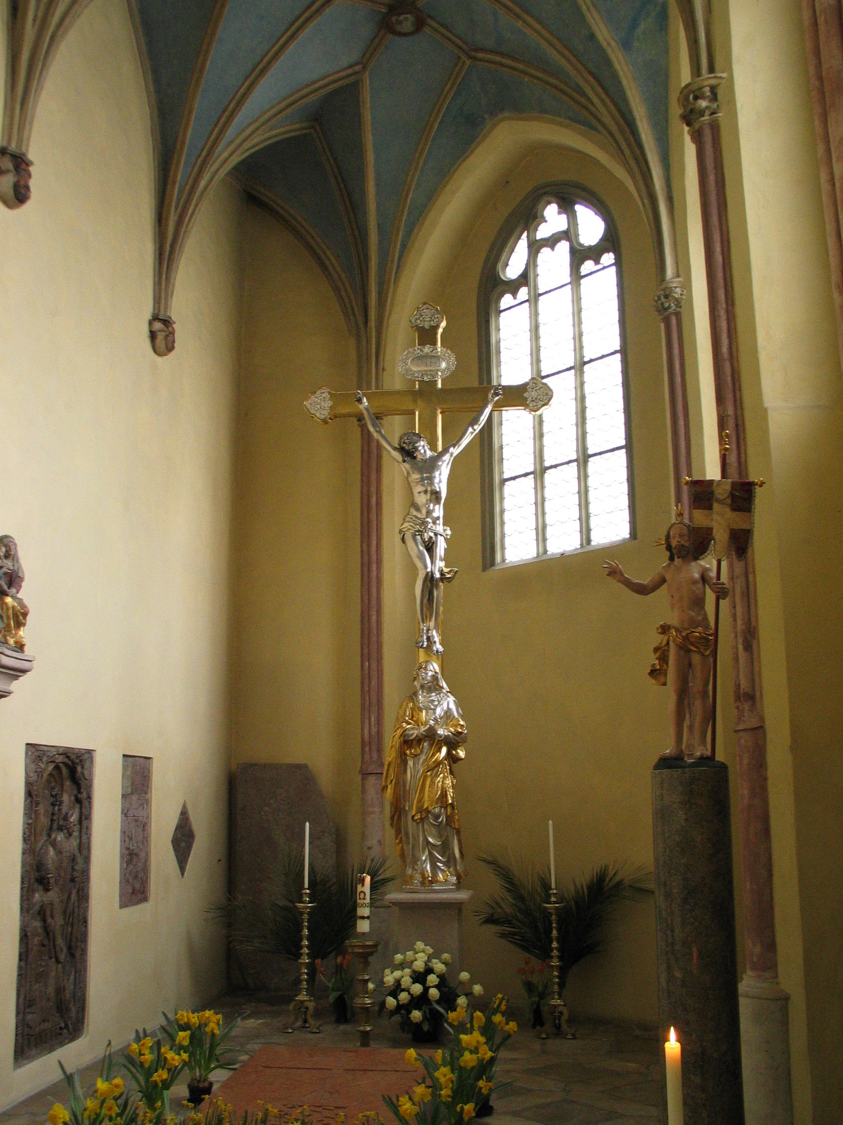 Landshut, Church of St Martin and Castulus. Interior view of the Altdorfer Chapel from east.